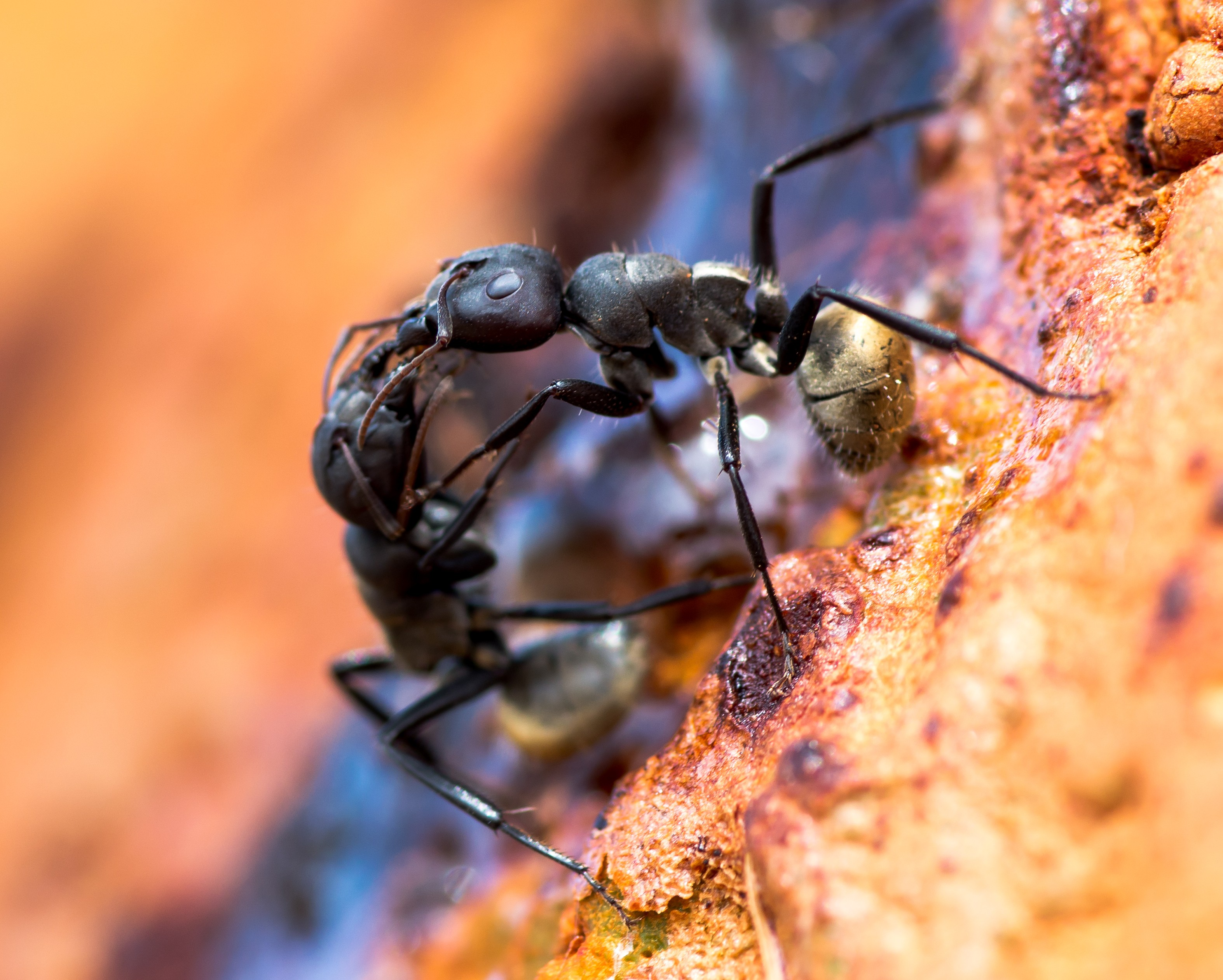 Camponotus sericeus on Vachellia seyal , Senegal